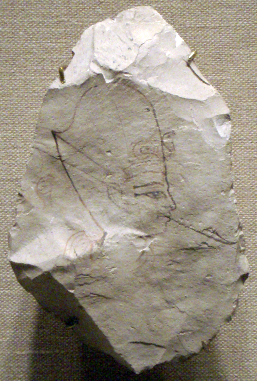 Ostracon from the Ramesside period, dynasties 19-20. From Thebes.